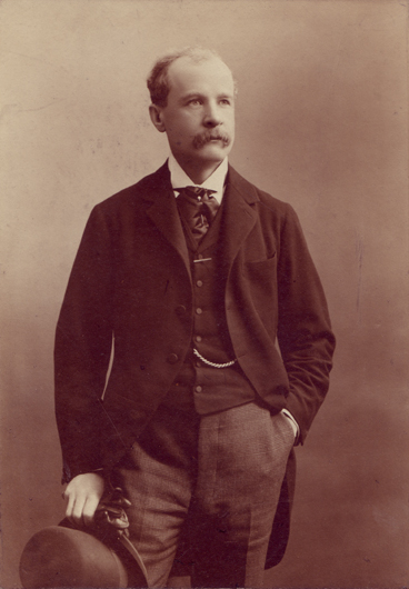 Photograph of Charles Fitzpatrick, M.P. (1853-1942). Date: [between 1890 and 1902] Photographer: Montminy & Cie, Quebec